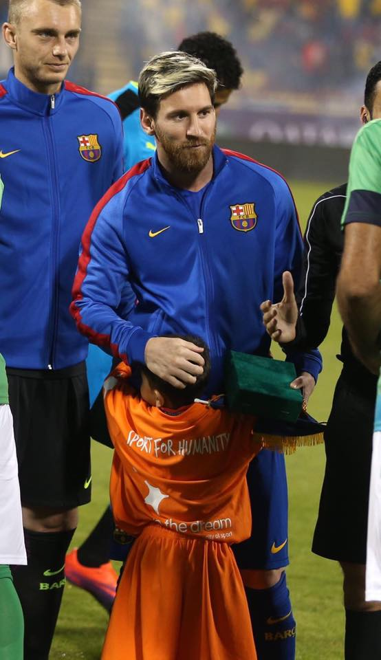 Messi & Plastic bag boy_2016